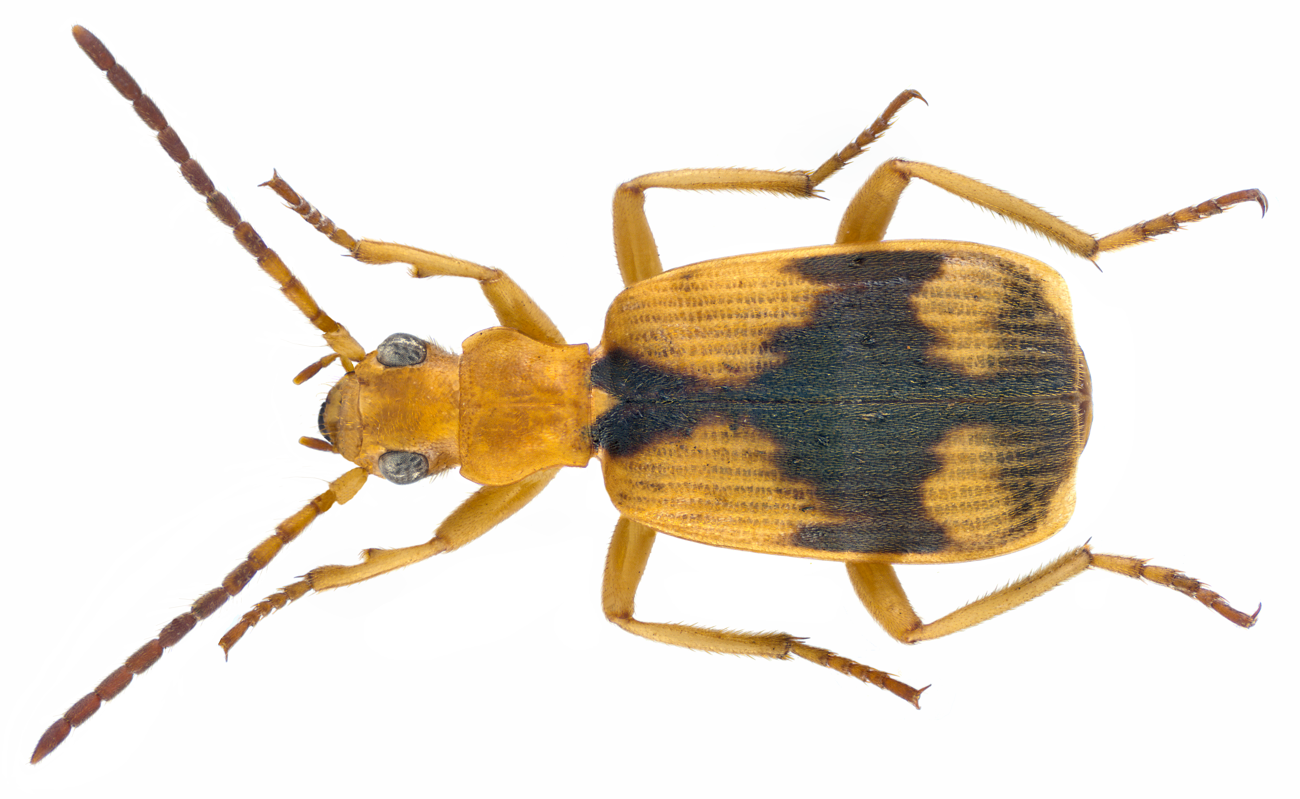 Family: Carabidae Size: 10,0 mm Location: Senegal, M`Bour, 14 km south, environment Club Aldiana leg. U.Schmidt, 8.-20.X.1992; det. M.Baehr, 2012 Photo: U.Schmidt, 2014 with Laboulbeniales in Coll. A. De Kesel, Aug. 2014 Herbarium Meise (B), ADK6137